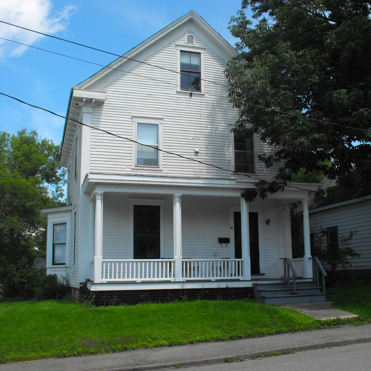 Childhood home of Henry Burr (birth name Harry McClaskey) in St Stephen NB. Acknowledgements to staff of St. Stephen Public Library and neighbourhood residents for helping to locate the house.